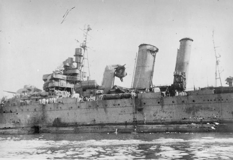 Kamikaze Attacks on shipping: View of the port side of HMAS AUSTRALIA showing the damage caused by a Japanese suicide aircraft.